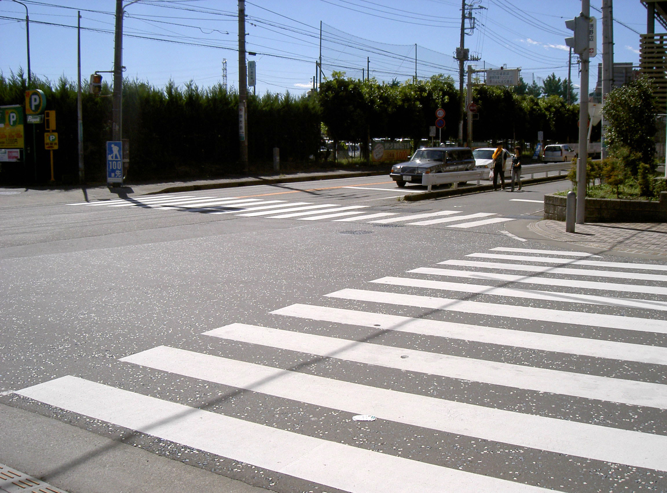 The junctuon of Kanagawa prefectural road route 57 and route 502 ja: 神奈川県道57号相模原大蔵町線と神奈川県道502号淵野辺停車場線の合流地点